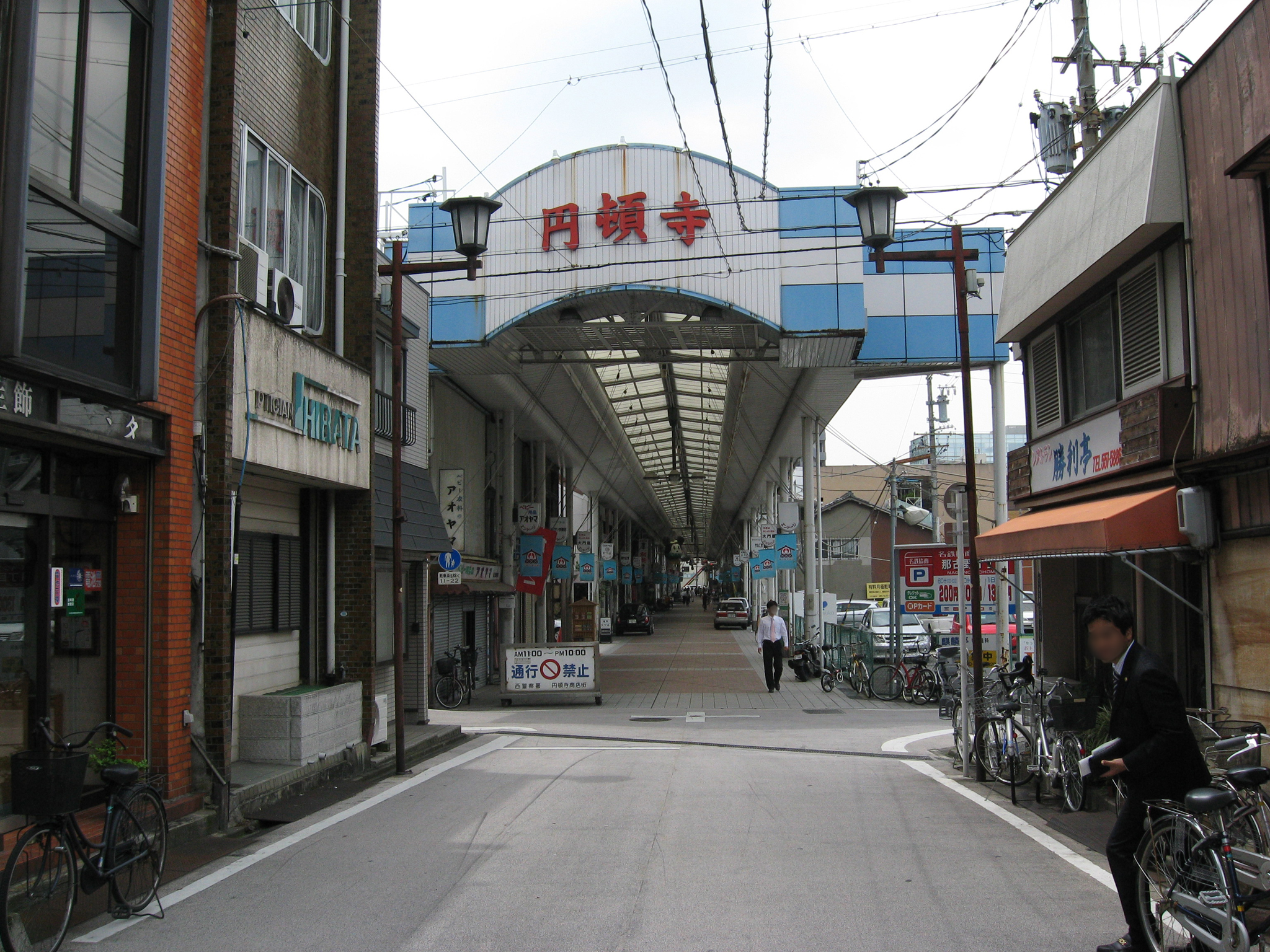 Endoji Shopping Street (from near Gojo Bridge)